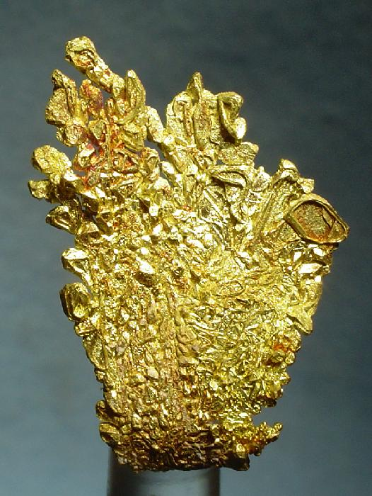 Gold Locality: Farncomb Hill, French Gulch, Breckenridge District, Summit County, Colorado, USA (Locality at ) Size: 2.7 x 1.8 x 0.4 cm. A fabulously crystallized leaf gold thumbnail from the historic Farncomb Hill of the Breckenridge District. Both sides of this rich golden, dentritic piece consist mainly of elongated, hoppered octahedrons along with a few spinel-twins. I like the way the largest crystals are at the tips of the piece. The large, distinctive, hoppered octahedron is 4 mm. These are generally historic specimens, with most having been found prior to 1900. However, some have trickled out over the years to intrepid diggers. No way to say when this one came out, in other words, but it likely is an older specimen. Note the unusual, elongated octahedrons to this specimen indicate that this piece is quite obviously from Breckenridge.